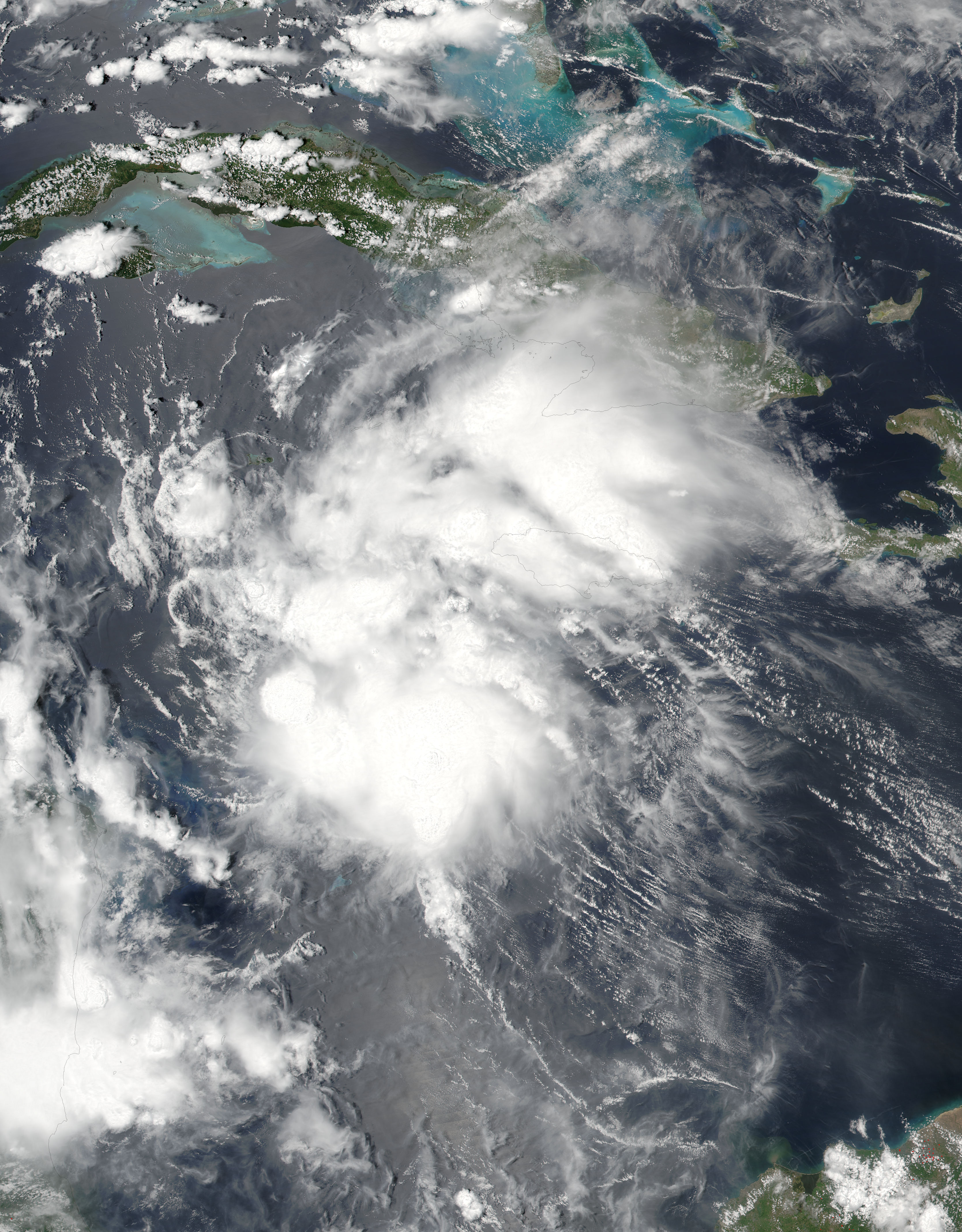 Tropical Storm Earl (05L) in the Caribbean Sea